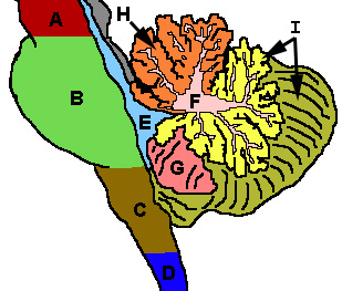 Diagram of cerebellar regions. A: Midbrain. B: Pons. C: Medulla. D: Spinal cord. E: Fourth ventricle. F: Arbor vitae. G: Tonsil. H: Anterior lobe. I: Posterior lobe.